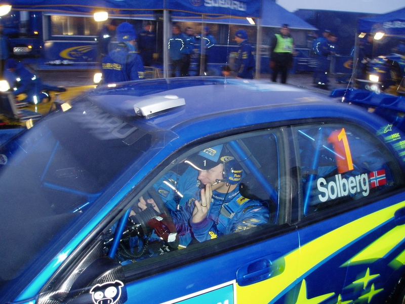 Petter Solberg, Norwegian rally driver